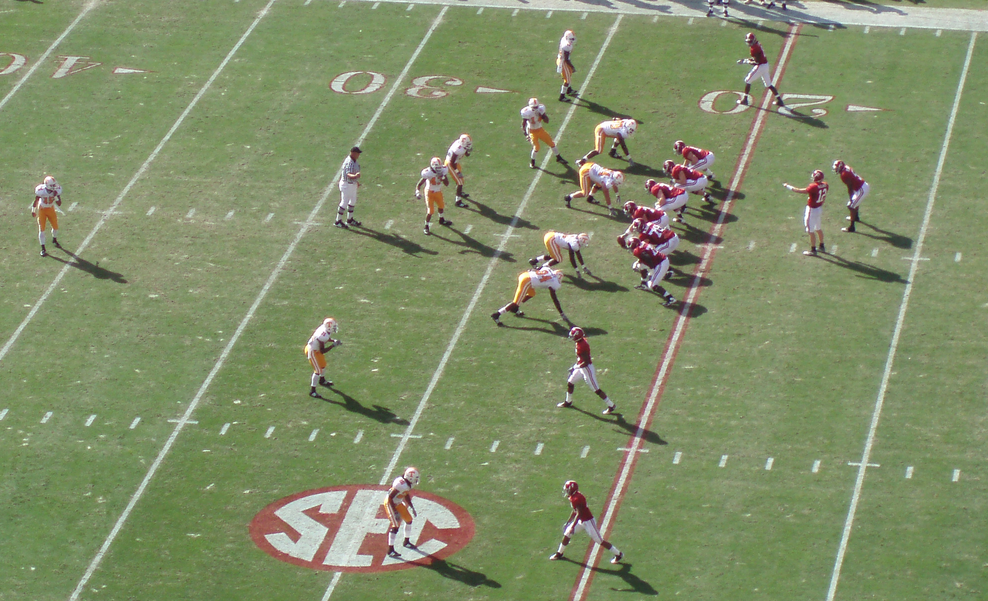 Alabama lines up on offense versus Tennessee in the 2009 Third Saturday in October. Alabama won 12-10.